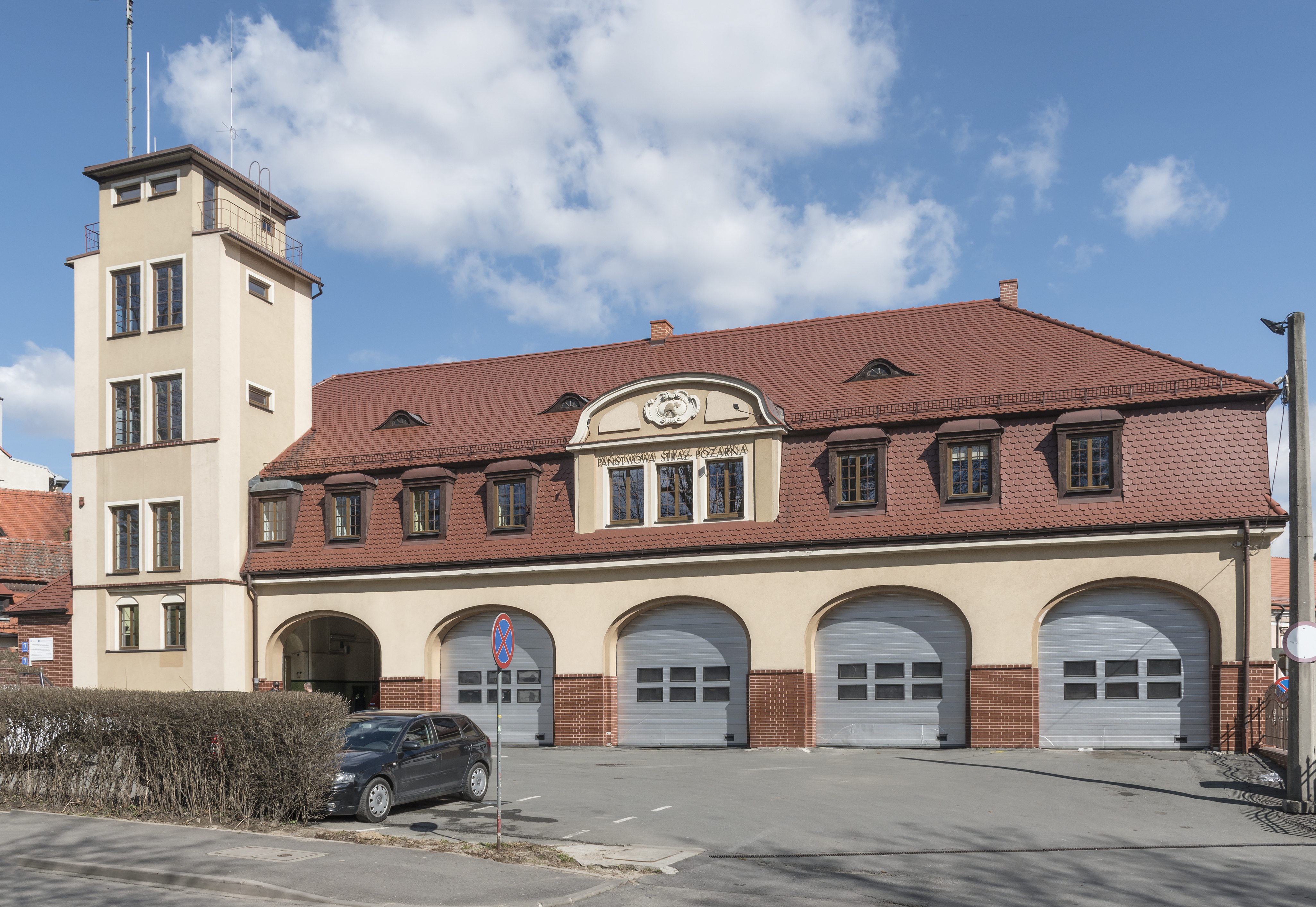 Fire station in Kłodzko